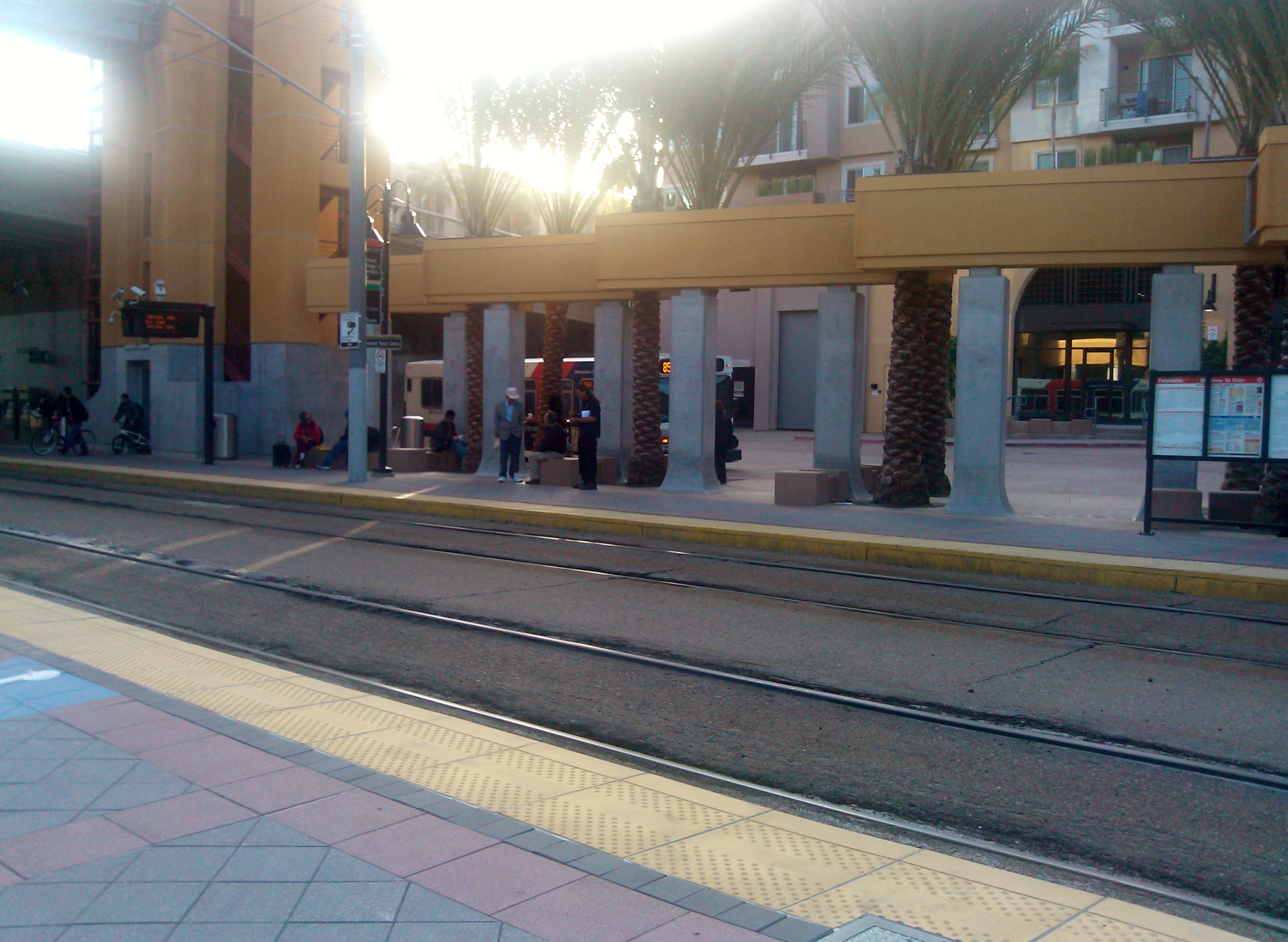 Gorssmont Transit Center,on 2012-05-10 at aproxmatley 6:30 pm